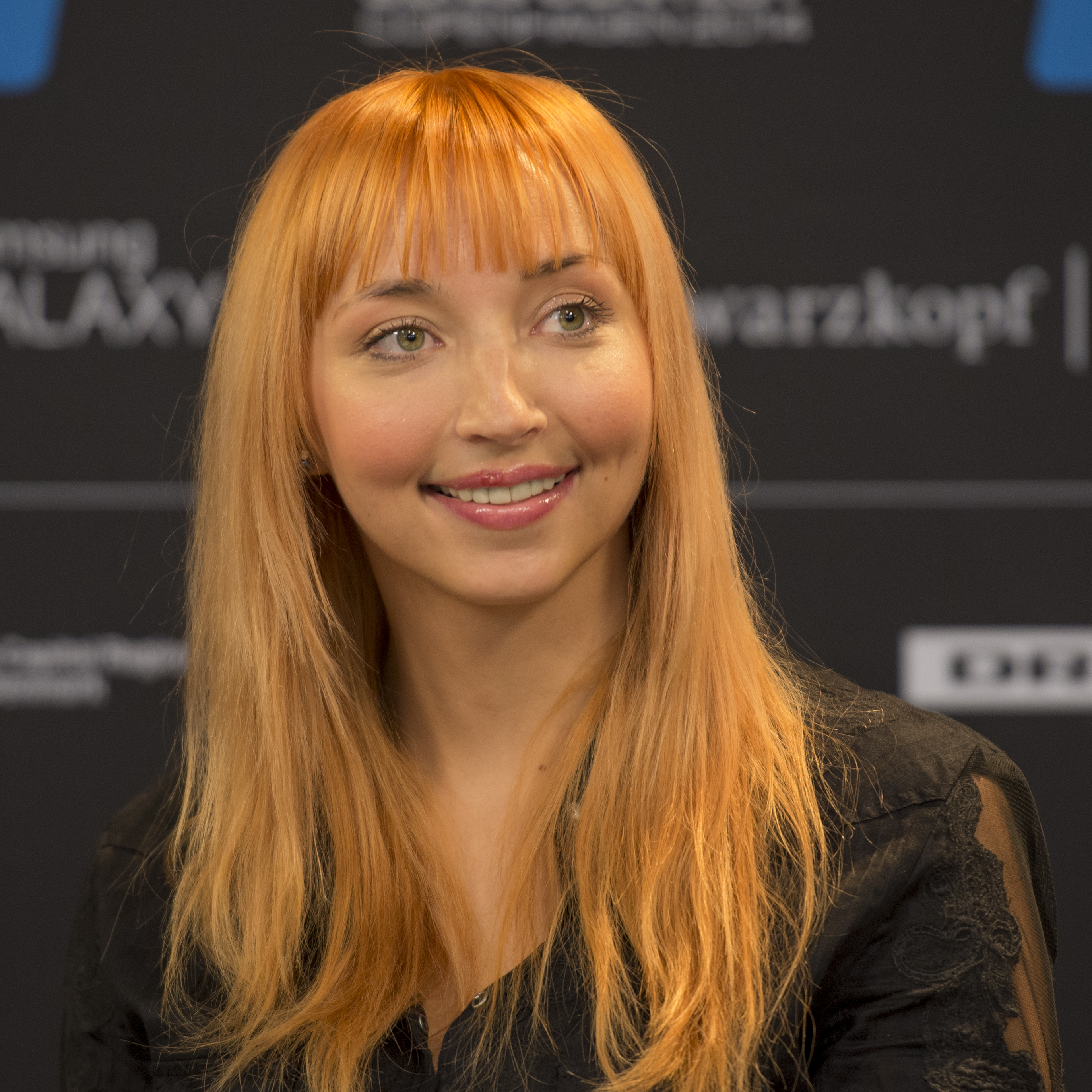 Tanja Mihhailova at a Meet & Greet during the Eurovision Song Contest 2014 Copenhagen. (Help translate this text)